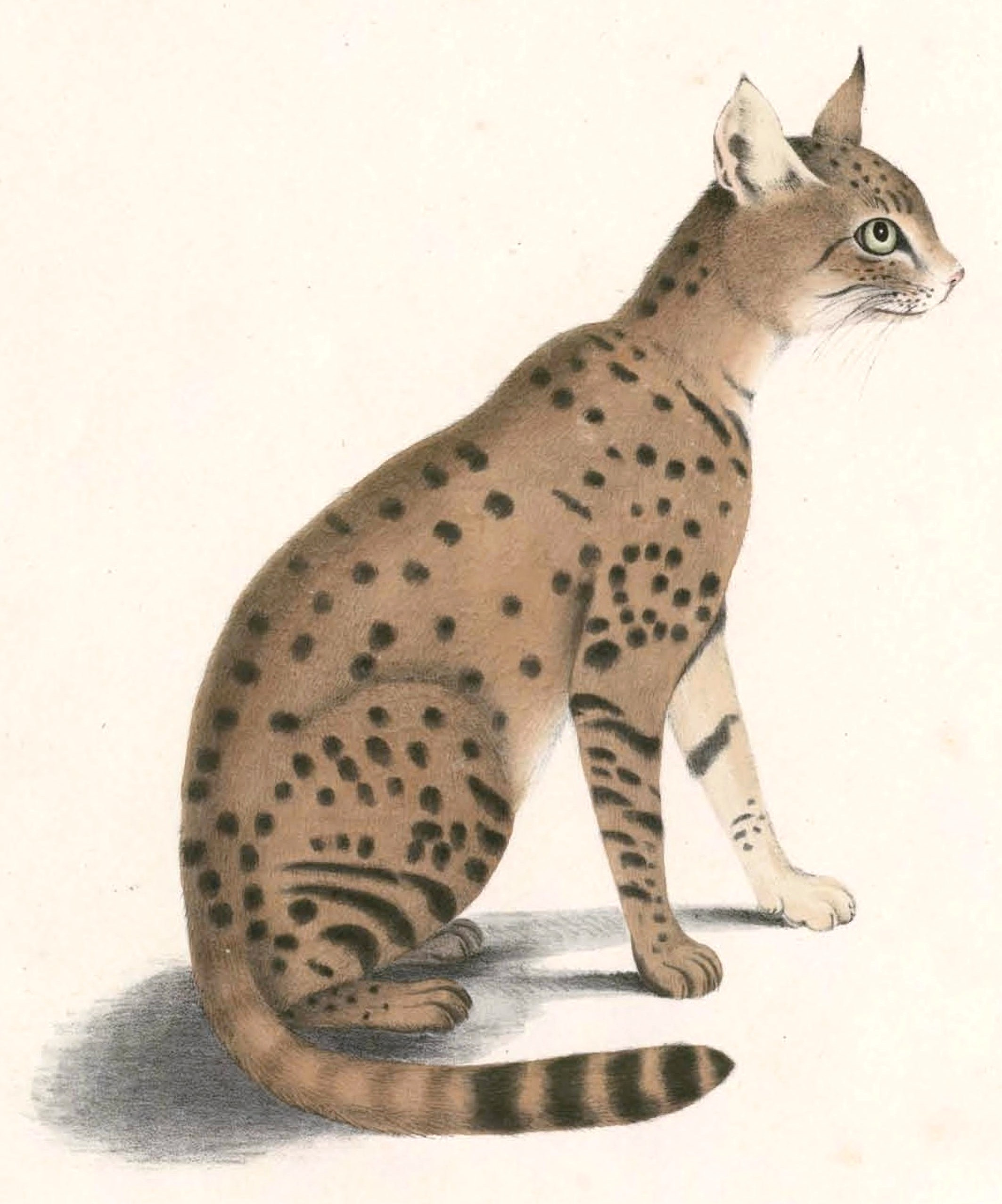 « Felis ornata » = Felis silvestris ornata (Asiatic Wildcat)